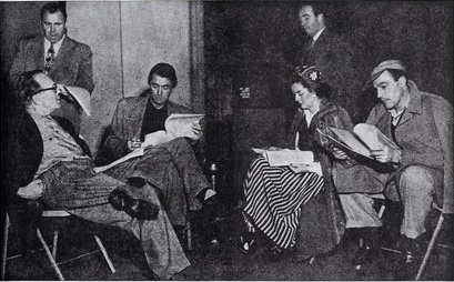 Jack Benny, Gregory Peck, Rosalind Russell and Gene Kelly rehearse CBS radio show The Man Who Came to Dinner (1949)